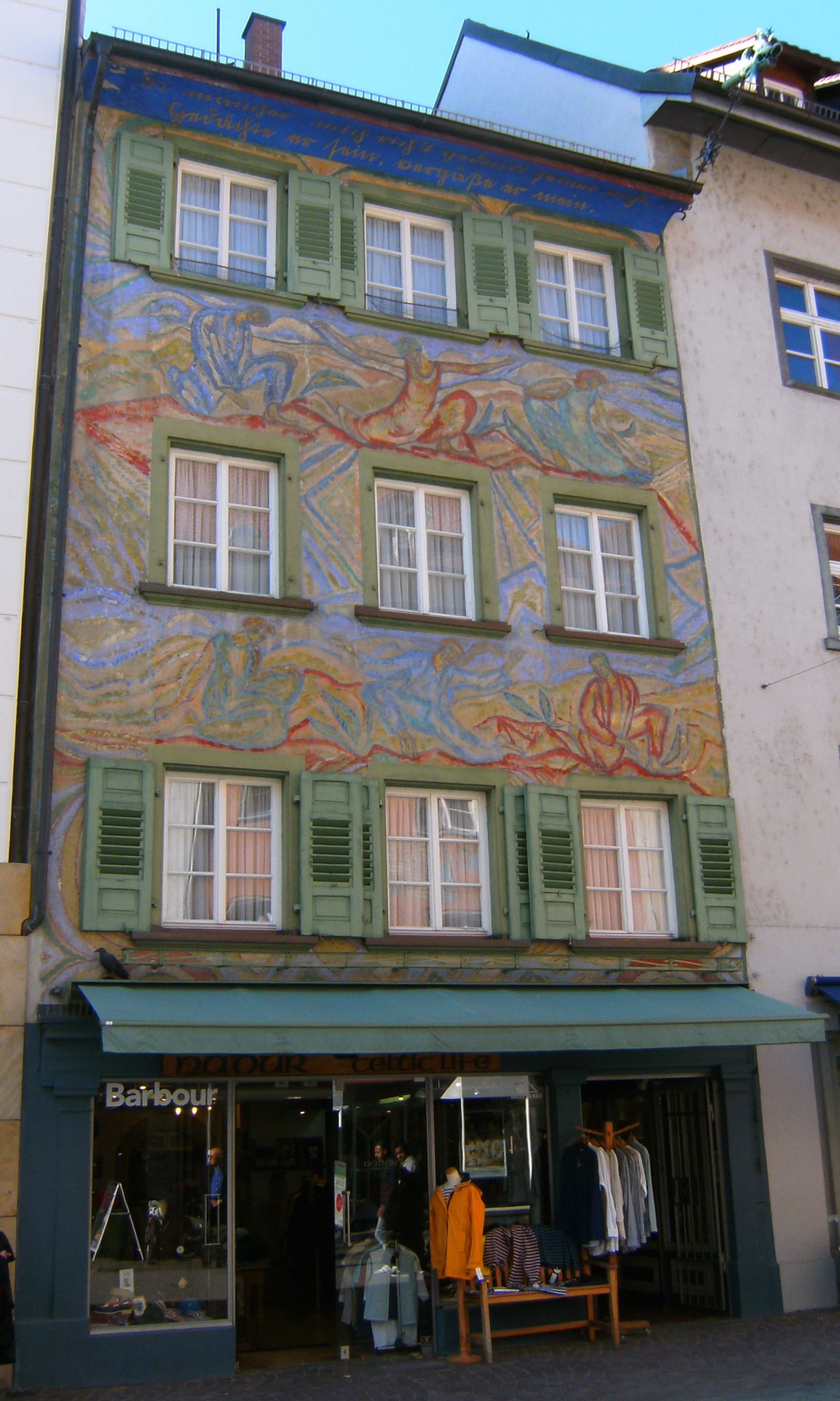 In Konstanz, Lake Constance, Germany the house in the street Hussenstraße 18 has motives on the facade by Hans Breinlinger.